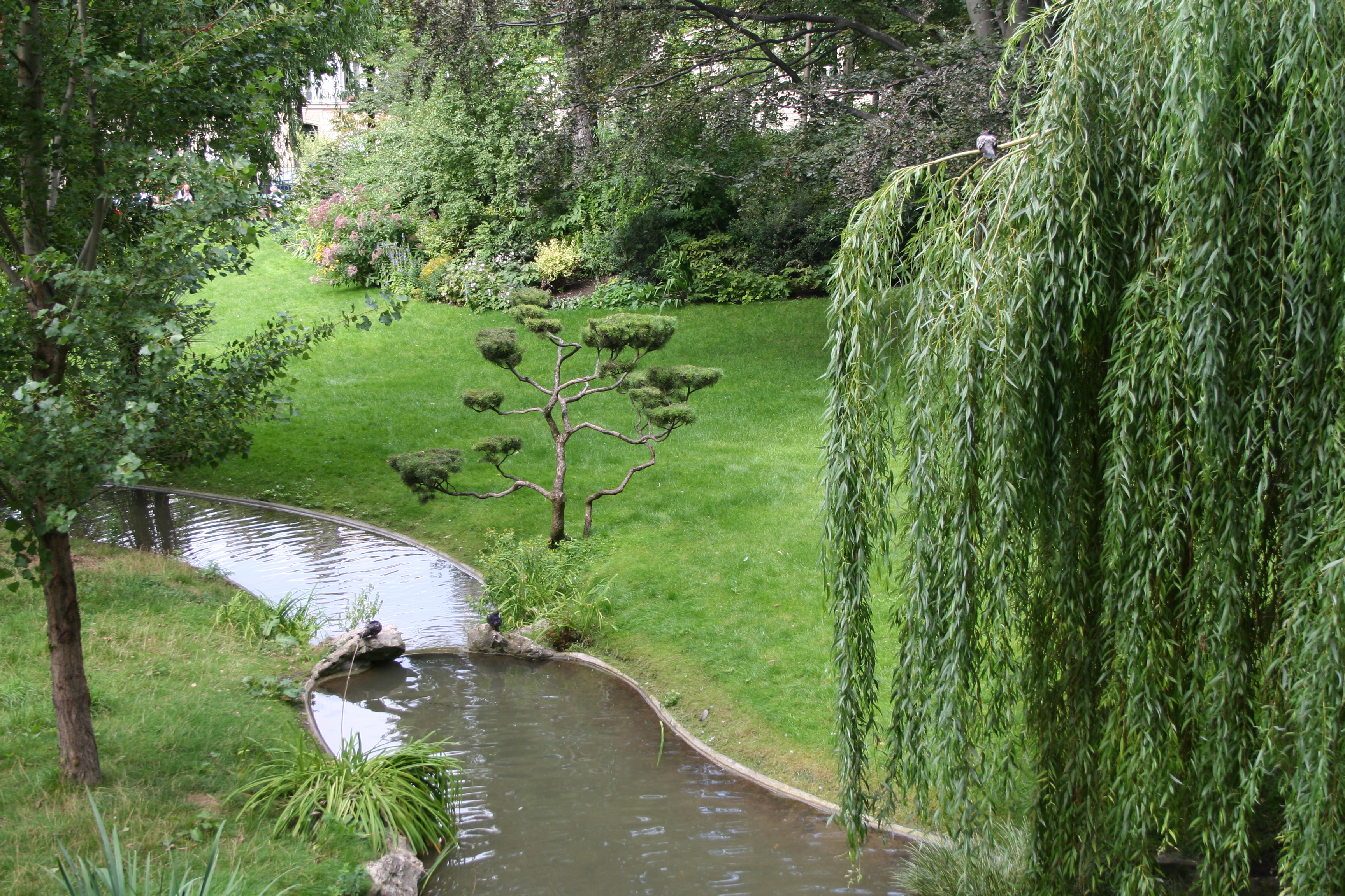 Square des Batignolles (Paris, France).